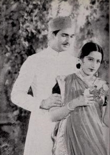 screen shot of Surendra and Bibbo in Dynamite from cine-mag Filmindia 1938